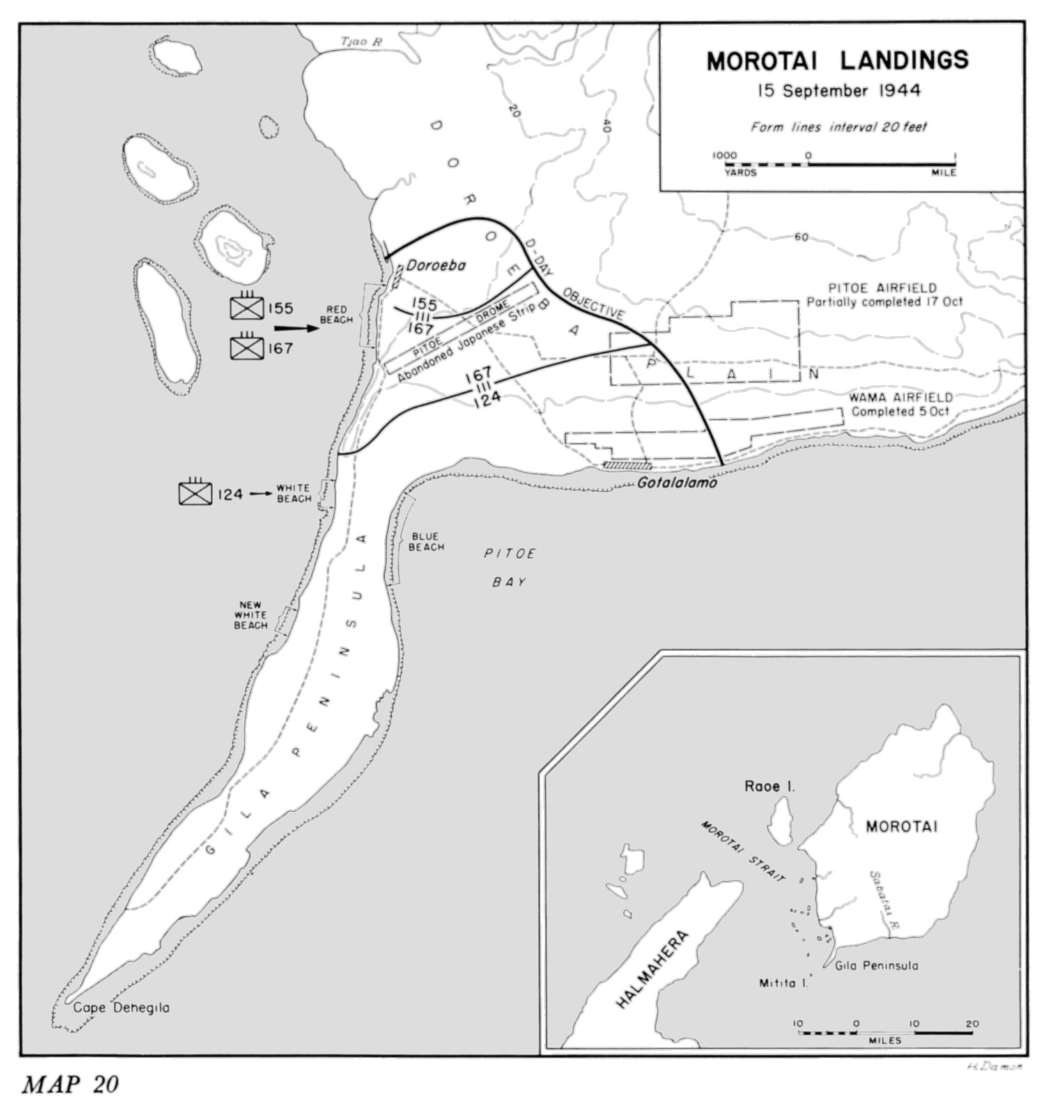 A map showing the operations of US forces on the first day of the Battle of Morotai